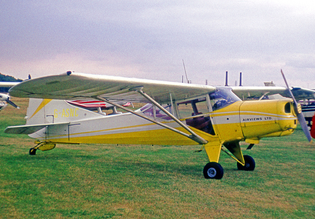 Beagle D5/180 G-ASNC of Airviews Ltd at Manchester Barton in June 1971